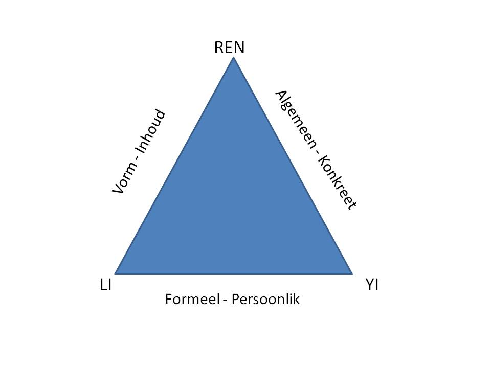 Confucius view of REN-YI and LI